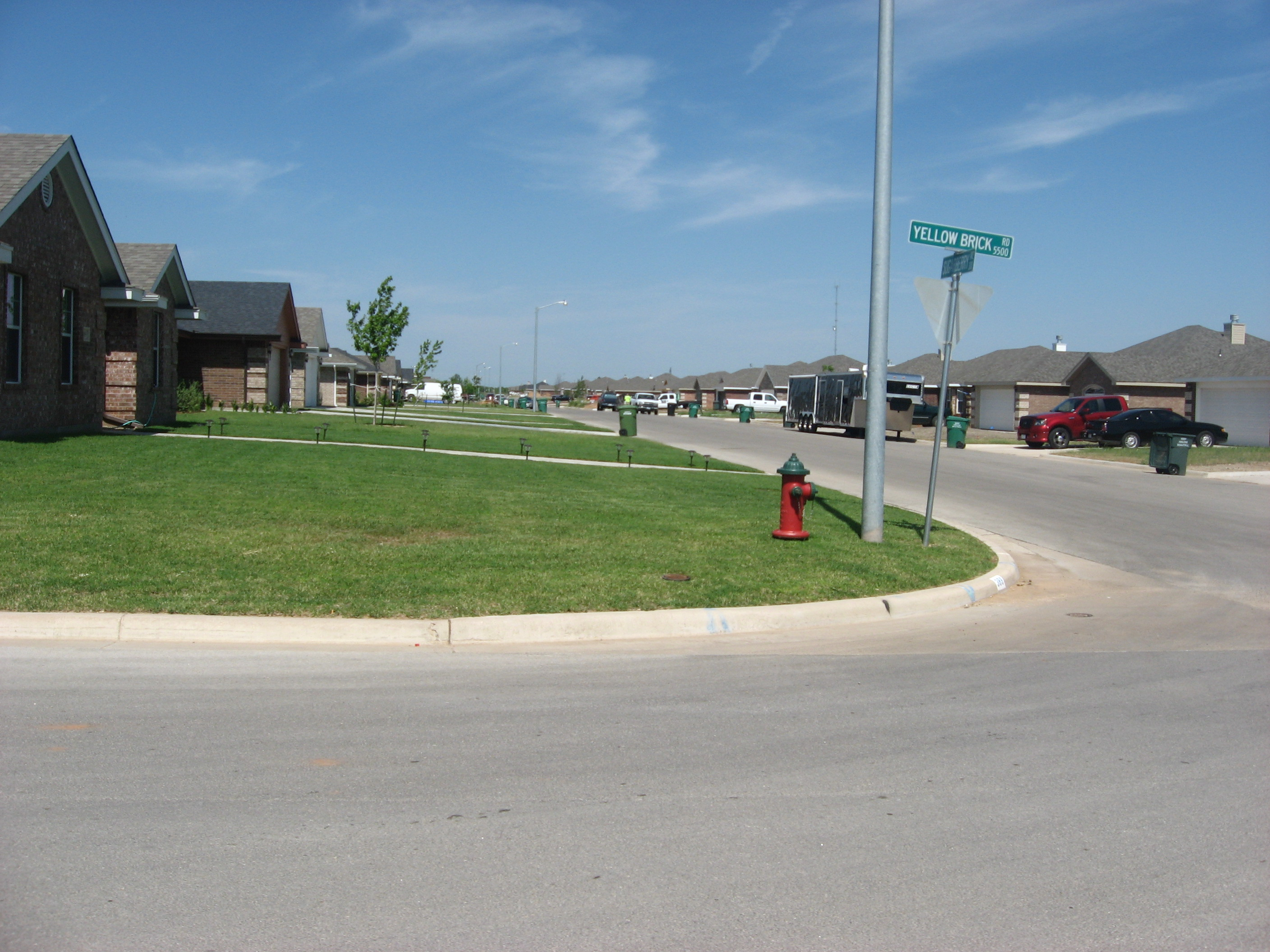 This picture was taken at Parkside Place, a new subdivision in the southeast area of Abilene, Texas. This image shows the entrance road into the subdivision, Sugarberry Road.